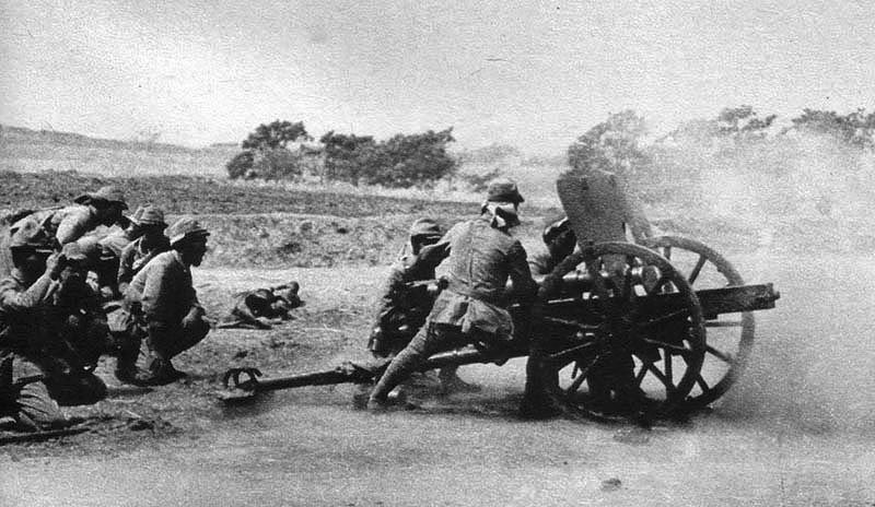 A Type 41 75-mm-Mountain Gun of the Imperial Japanese Army